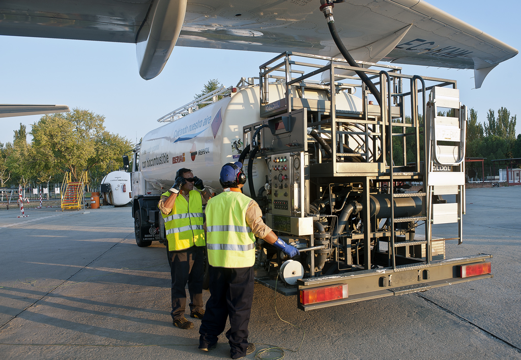 First Biofuel Flight